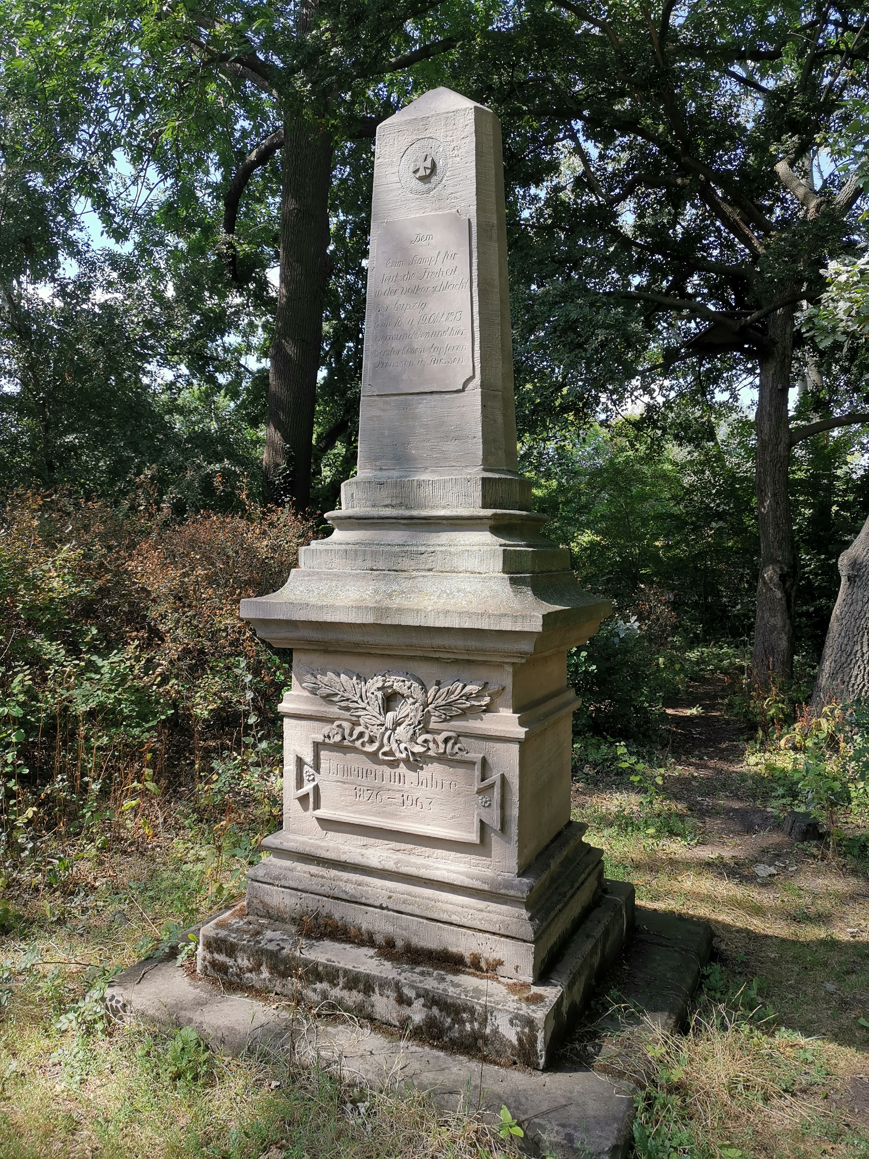 Obelisk zum Gedenken an die 1813 in Leipzig gefallenen Preußen und Russen (Würfelwiese, Halle/Saale, Sachsen-Anhalt)